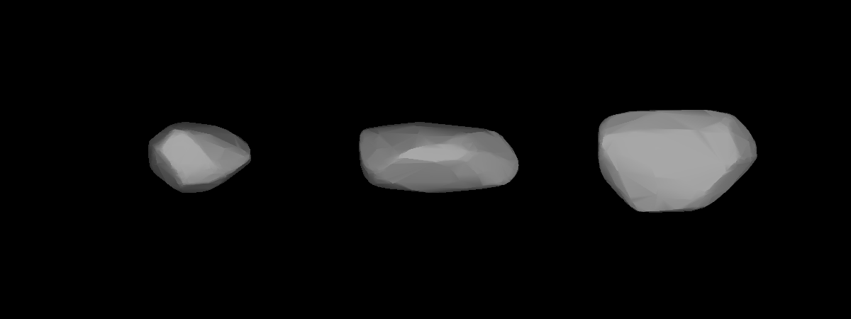 A three-dimensional model of 1140 Crimea that was computed using light curve inversion techniques.